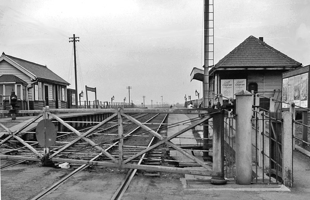 Bickershaw & Abram Station. View SSE, towards Lowton and Glazebrook; ex-GC Glazebrook - Lowton - Wigan (Central) branch line. Line and station closed 2/11/64.